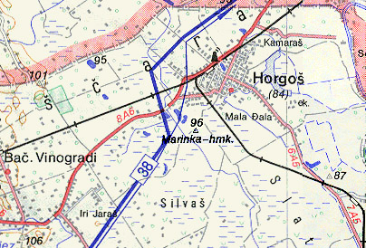 Strategic importance of kurgans shown in a portion of a topographic map, with the position of earthly mound called "Marinka" (at 96 metres altitude point). Used solely for educational purposes, to illustrate a historic landscape feature, without unobvious or unpublic detail - such as place names, boundaries and cartographic elements. (Although the map itself was not in public domain, it had no proper copyright notice and is old enough not to be considered offence of copyright.)